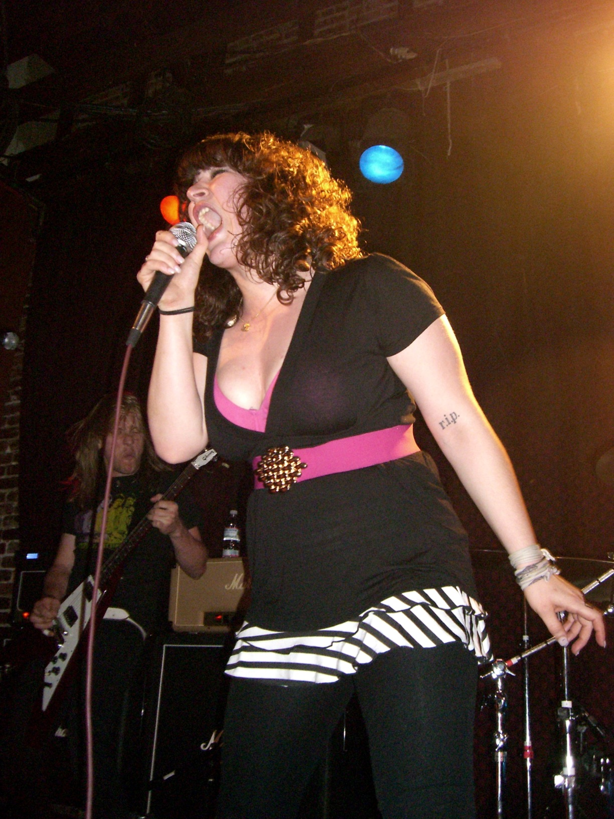 Morningwood live at the Social in Orlando FL. 6/14/06